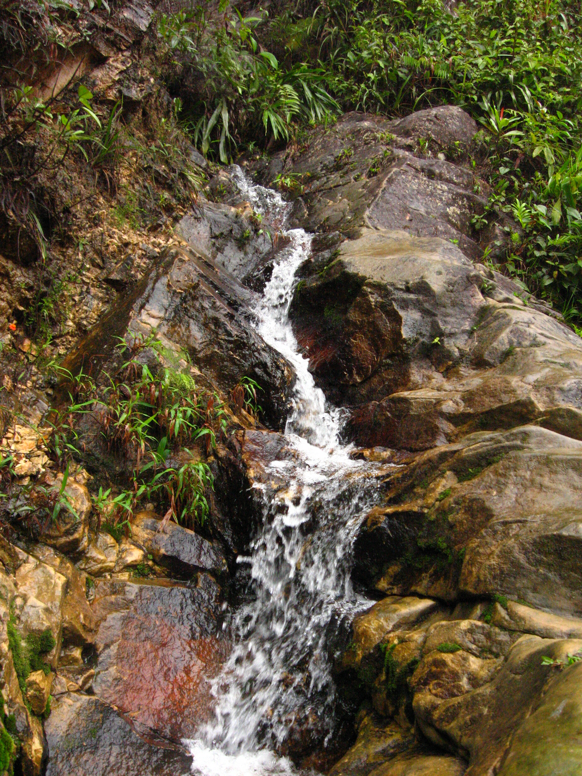 Upper Amazon, San Martín, Perú (Carretera Tarapoto--Yurimaguas).